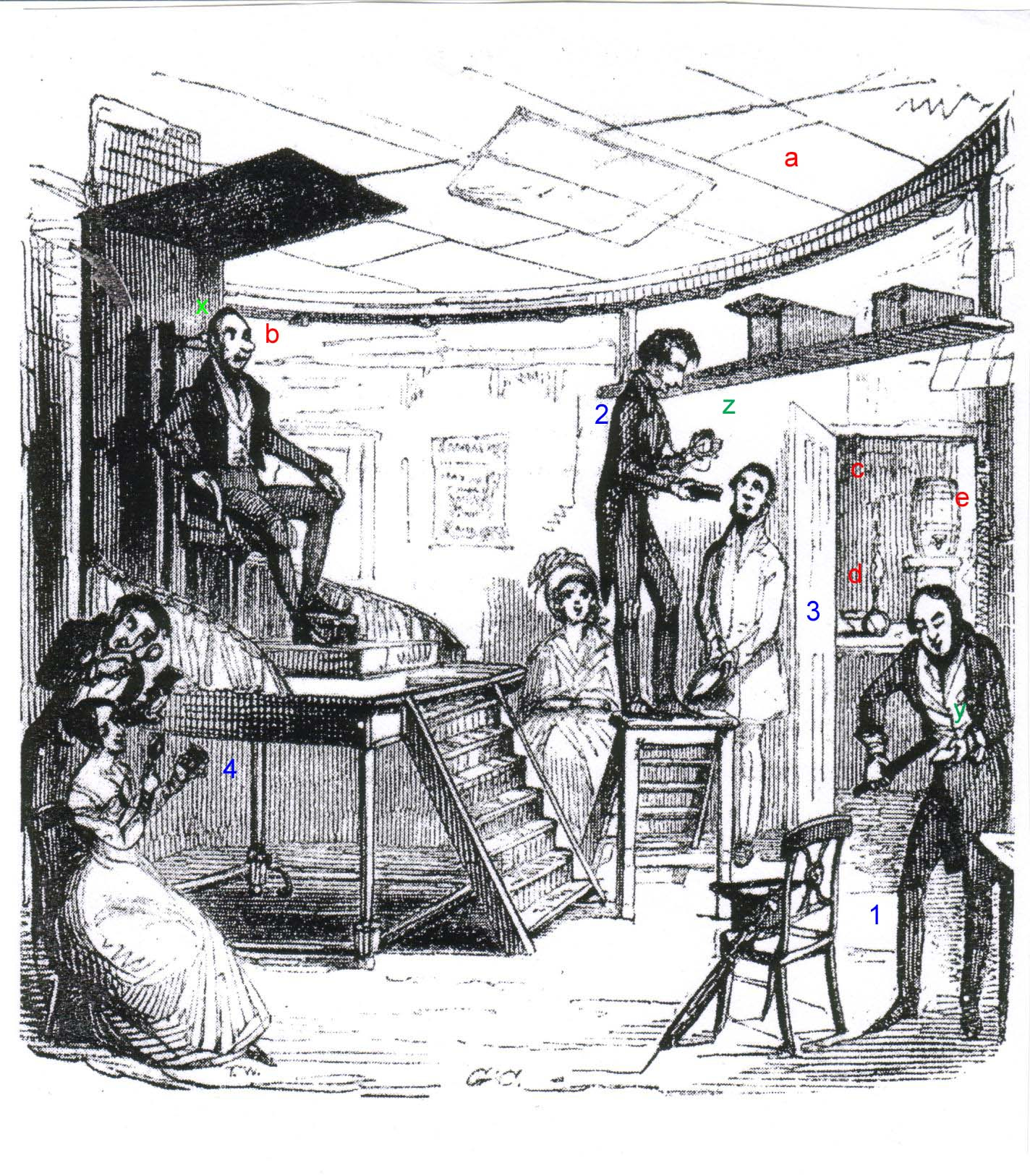 Interior of Richard Beard's daguerreotype portrait studio